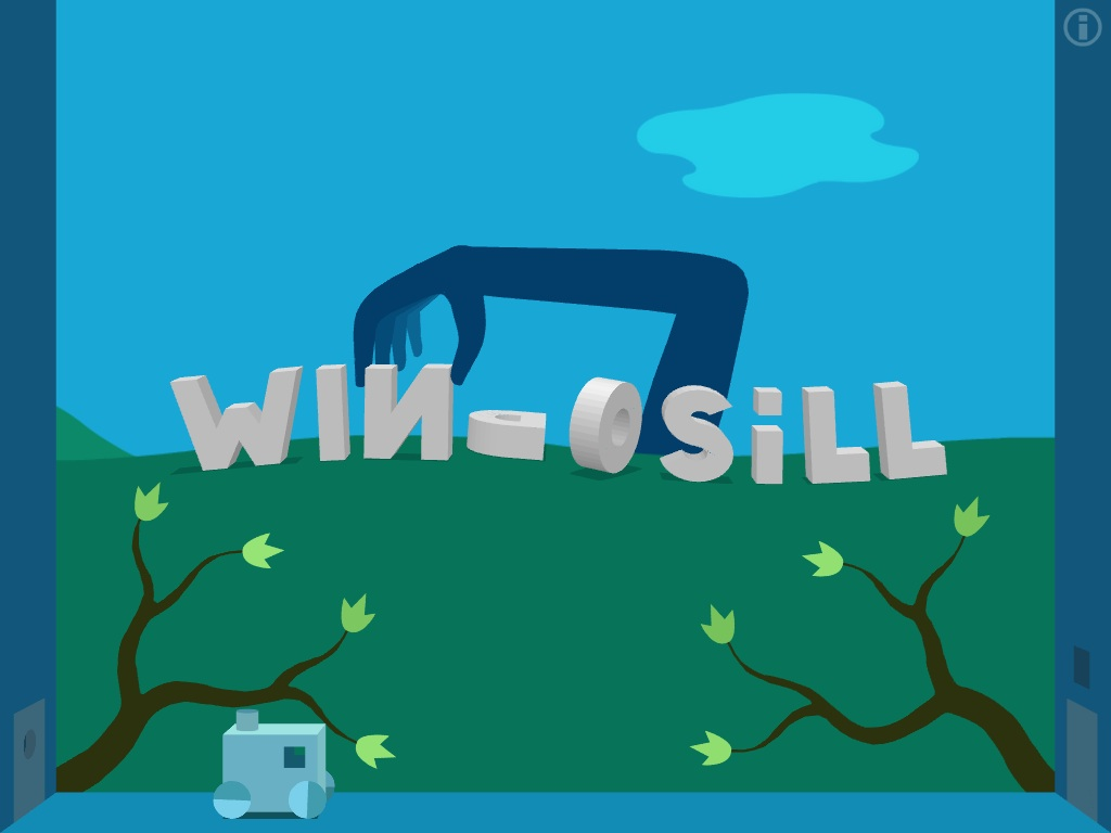 Windosill screenshot